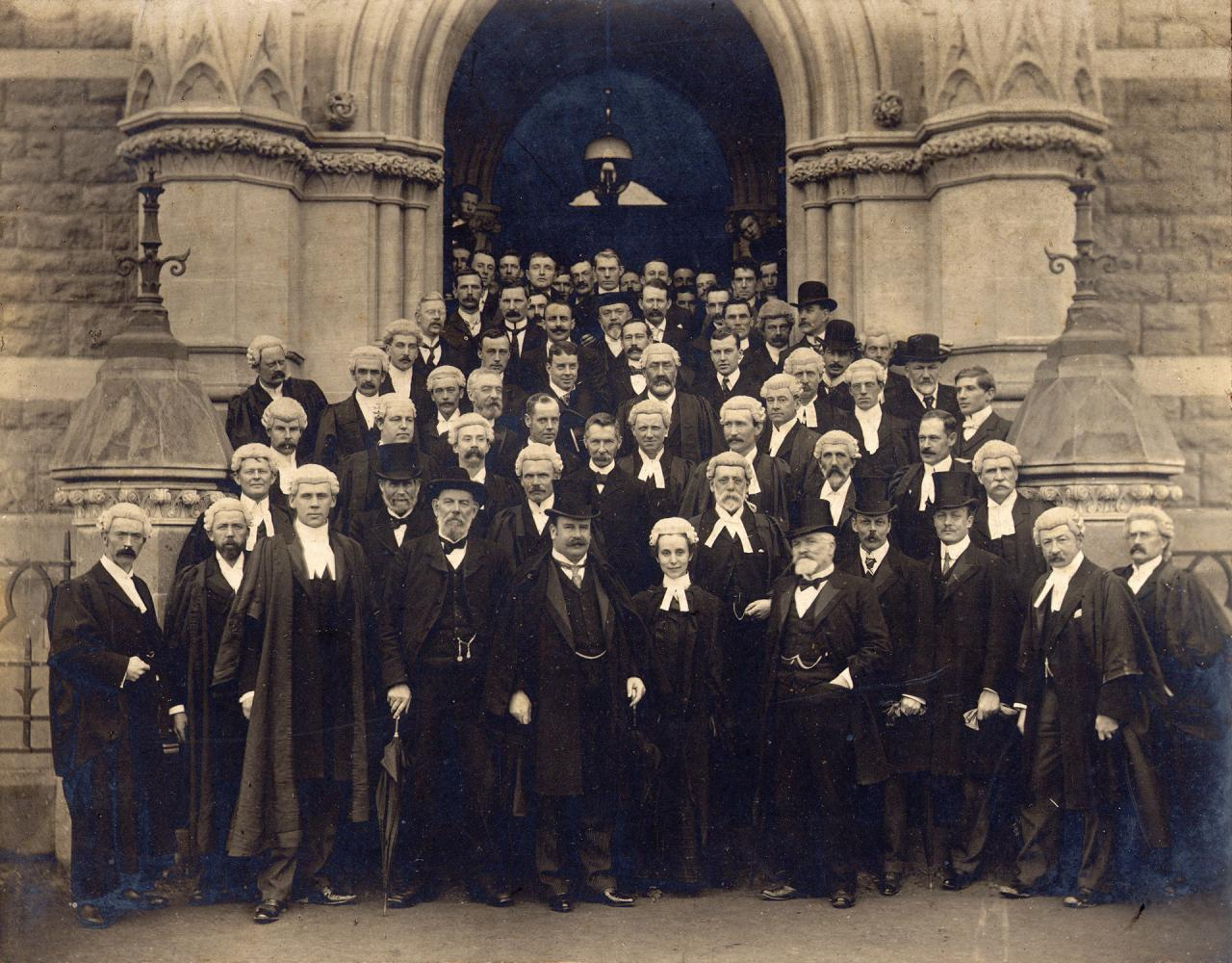 Ethel Benjamin (centre front) first female lawyer in New Zealand, at the opening of the Dunedin Law Courts in 1902.